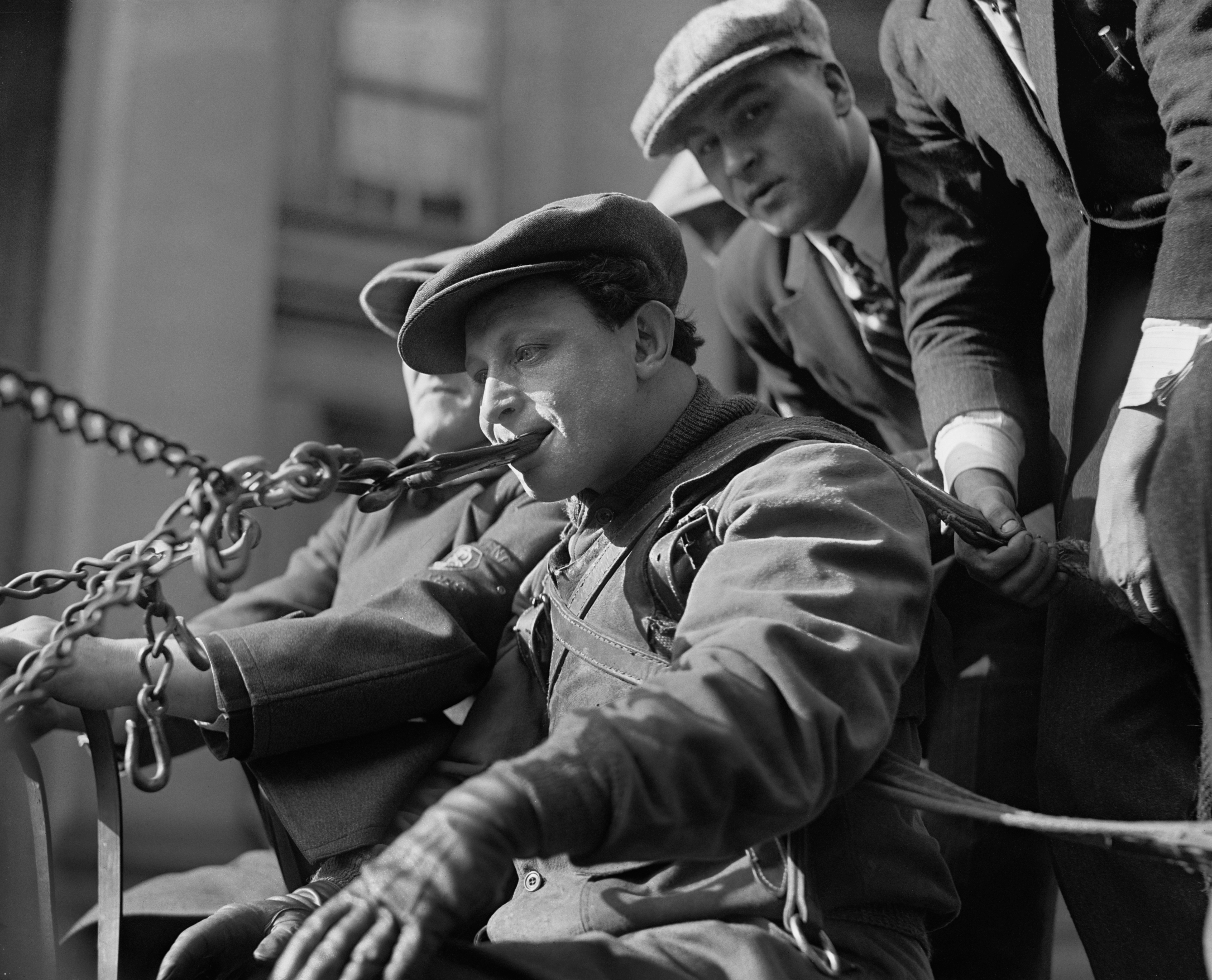 Siegmund Breitbart, Jewish strongman, performing in November 1923. Glass negative. Siegmund "Zishe" Breitbart (1893–1925), shown here pulling a heavy weight using only his teeth, was a Polish strongman and circus performer who was known as the "Strongest Man in the World" during the 1920s. He was widely popular in both Europe and the U.S., but died at the age of 32 after an accident during a performance.